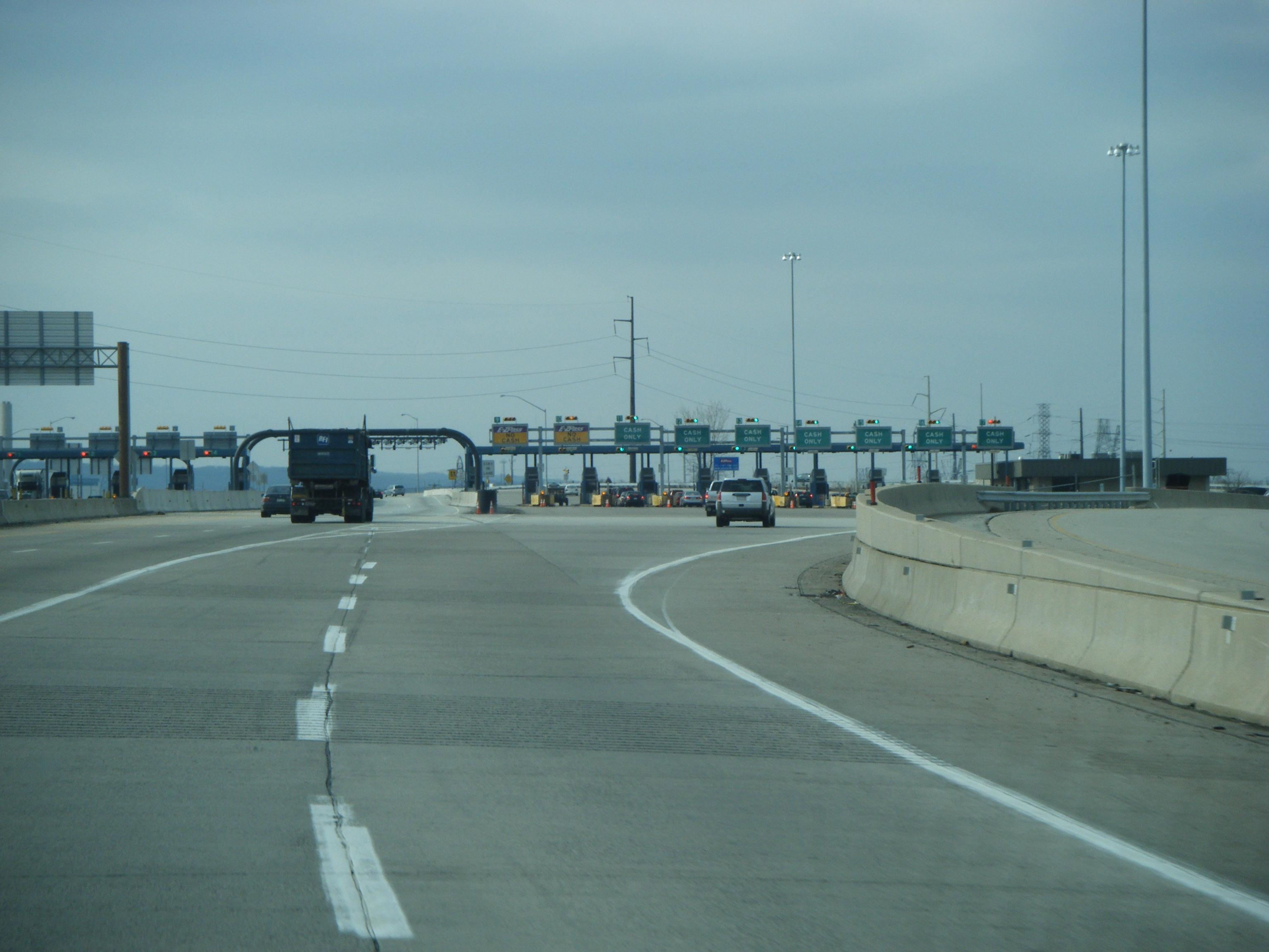 Southbound Interstate 476 at Mid-County toll plaza in Plymouth Meeting, Pennsylvania